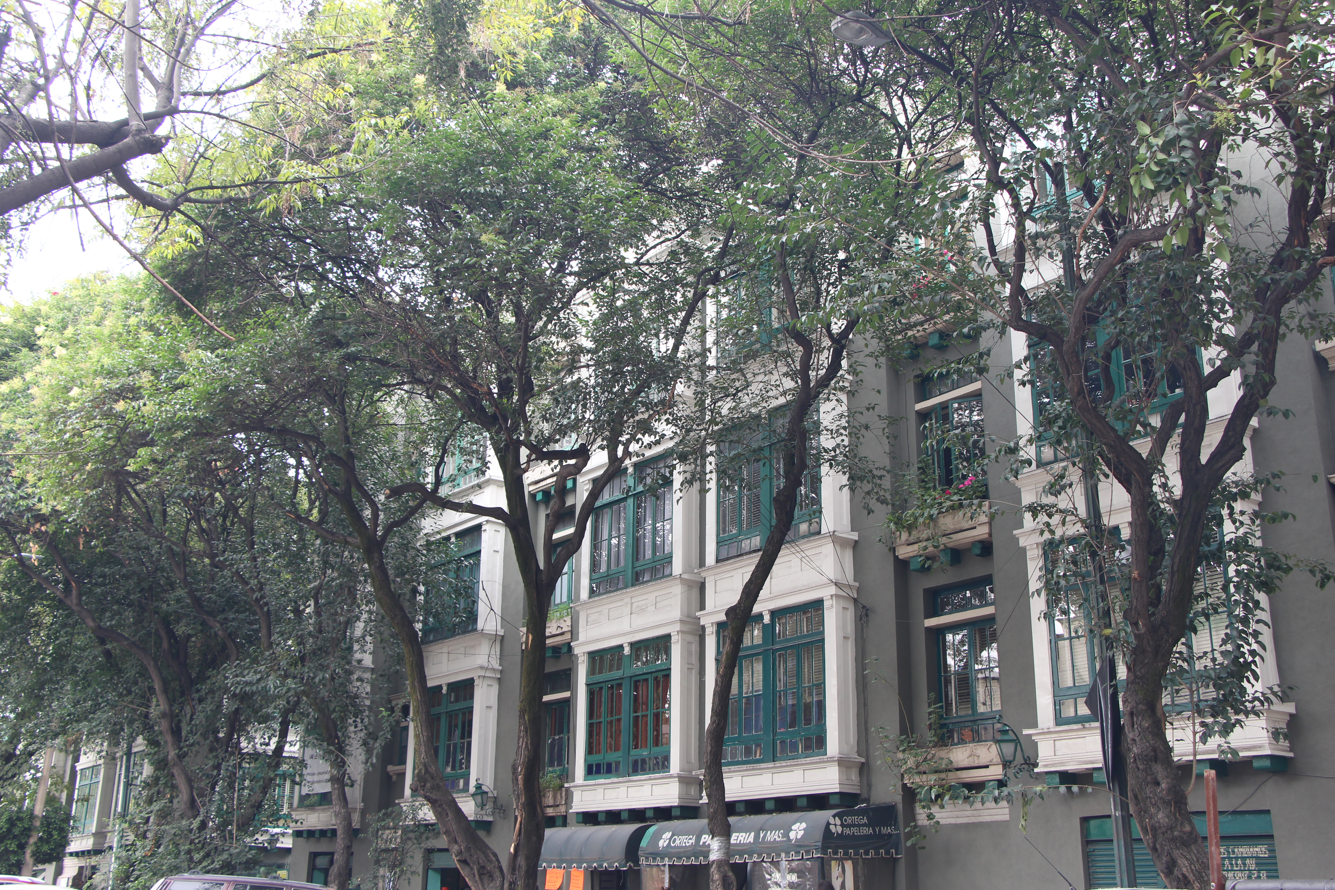 Lateral view of the street of Edificio Condesa at Colonia Condesa, Mexico City